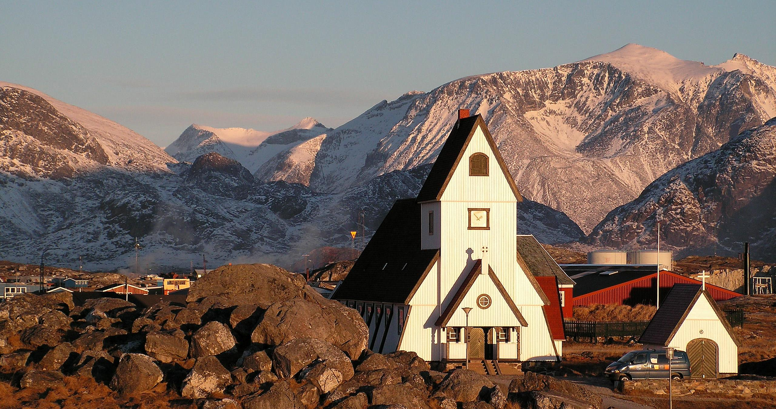 The church in Nanortalik, Greenland (December 2005) Photo by Jens Buurgaard Nielsen